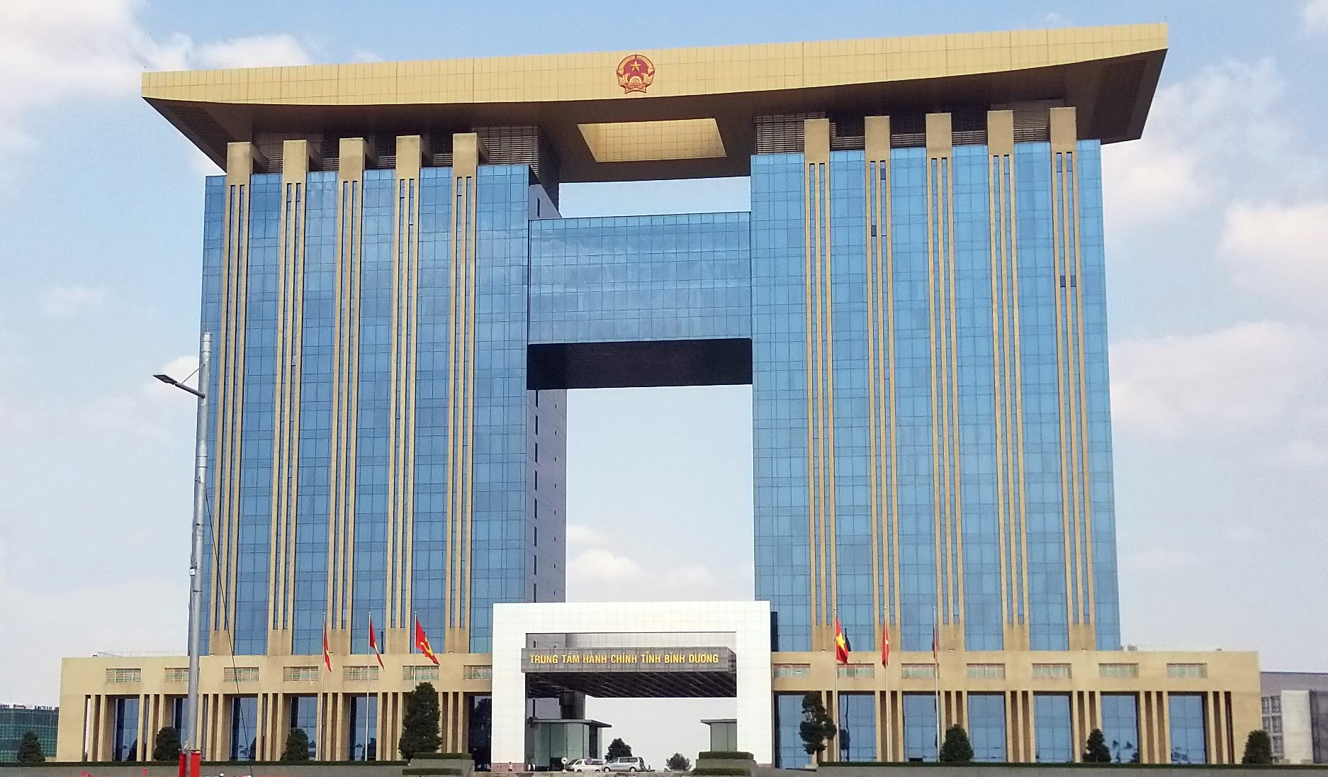 Binh Duong Province Administration Center in Thu Dau Mot.